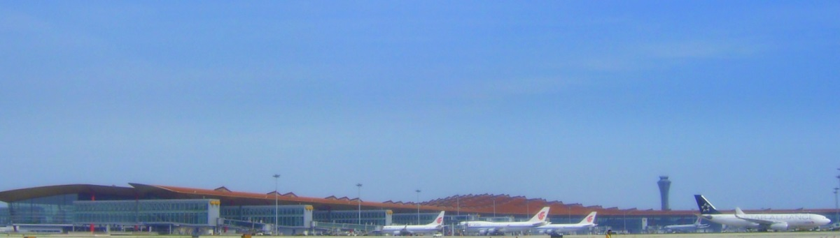 Beijing Capital International Airport Terminal 3-E